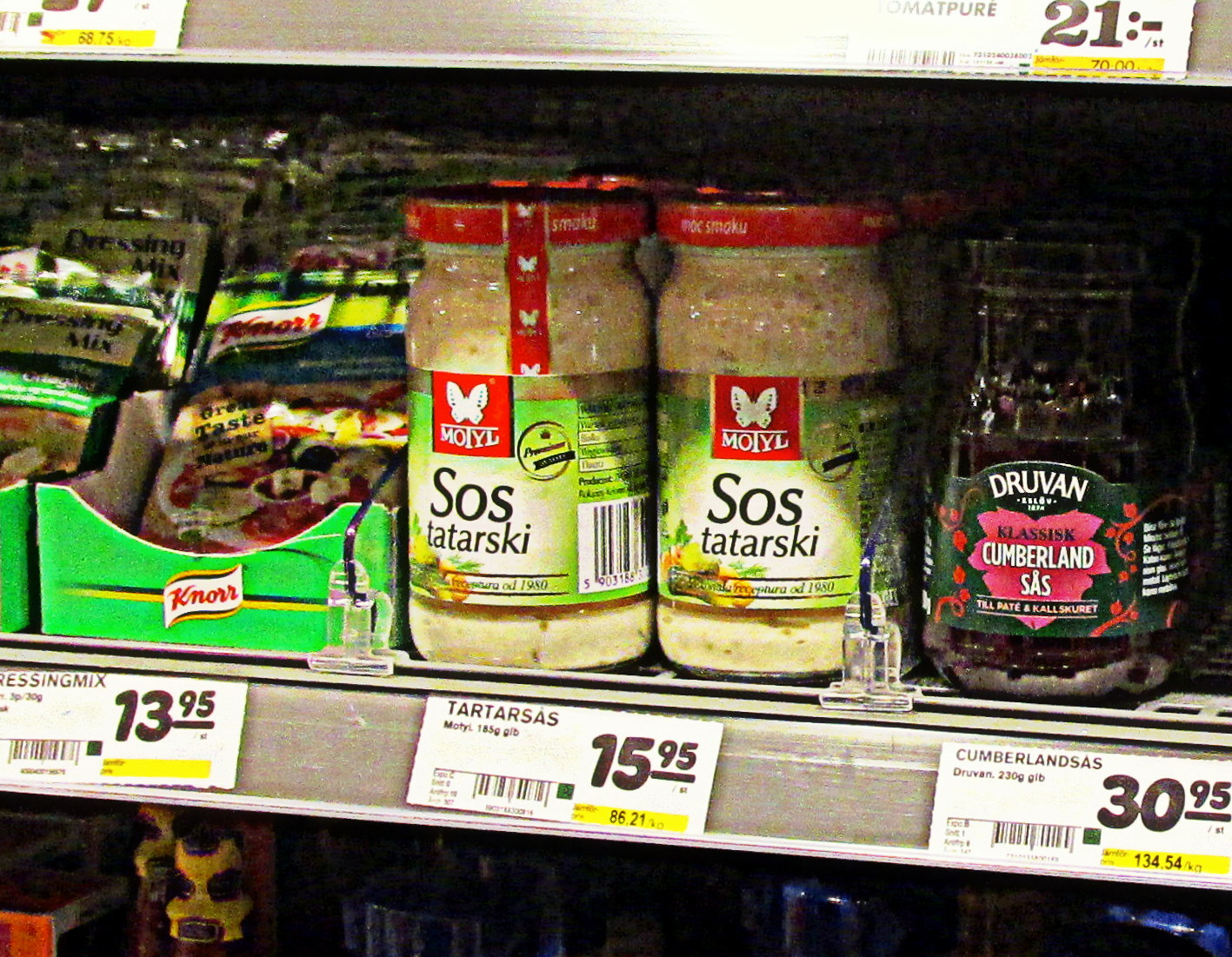 Tartar sauce on a supermarket shelf